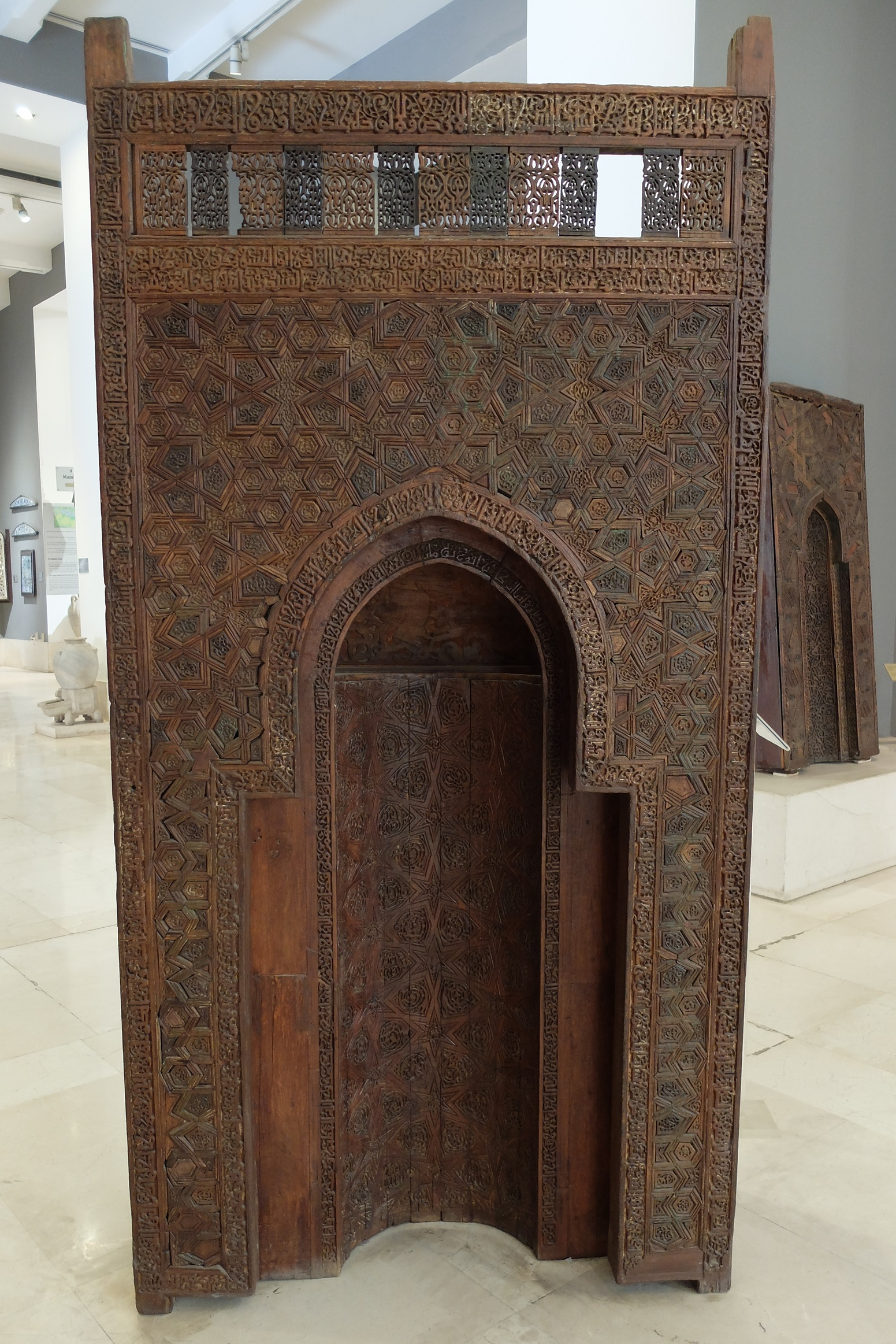 The Fatimid wooden mihrab of the Mashhad of Sayyida Ruqayya, at the Museum of Islamic Art, Cairo. Dating from 1154-60 CE, commissioned by the wife of the Caliph al-Amir (see "The Illustrated Guide to the Museum of Islamic Art in Cairo" (O'kane, 2012), p. 85).